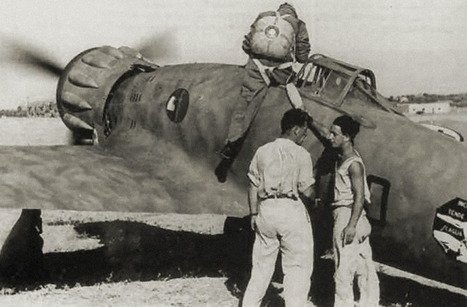 Macchi C.200 with fully-enclosed cockpit of the 1st Stormo, Trapani, August 1940